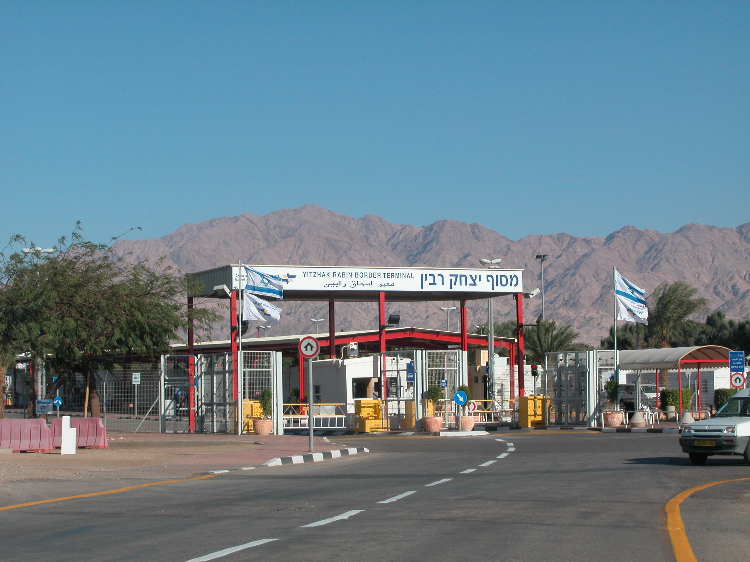 The Yitzhak Rabin Border Terminal in Eilat, Israel. The terminal connects Eilat, Israel to Aqaba, Jordan.